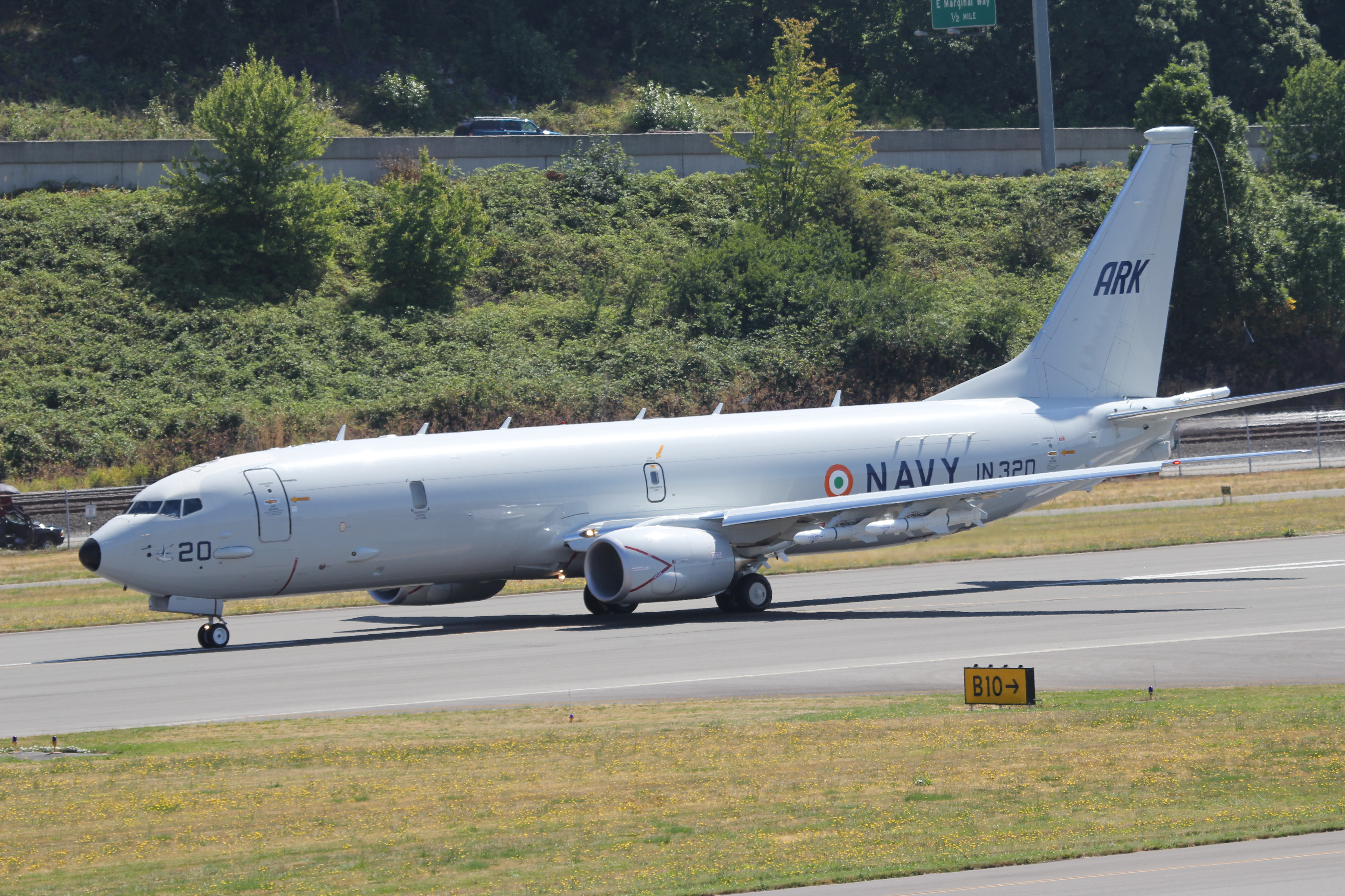 Indian Navy Boeing P-8I Neptune (Poseidon)